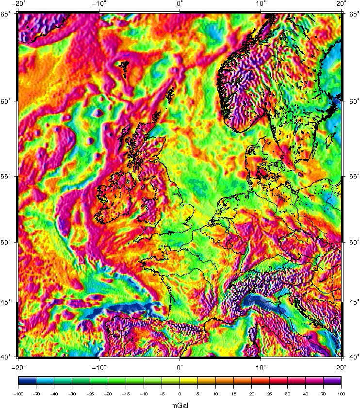 Gravitational anomaly plot from